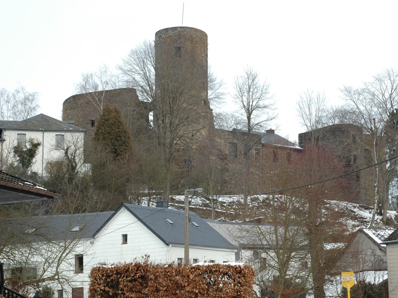 Castle Reuland in Belgium